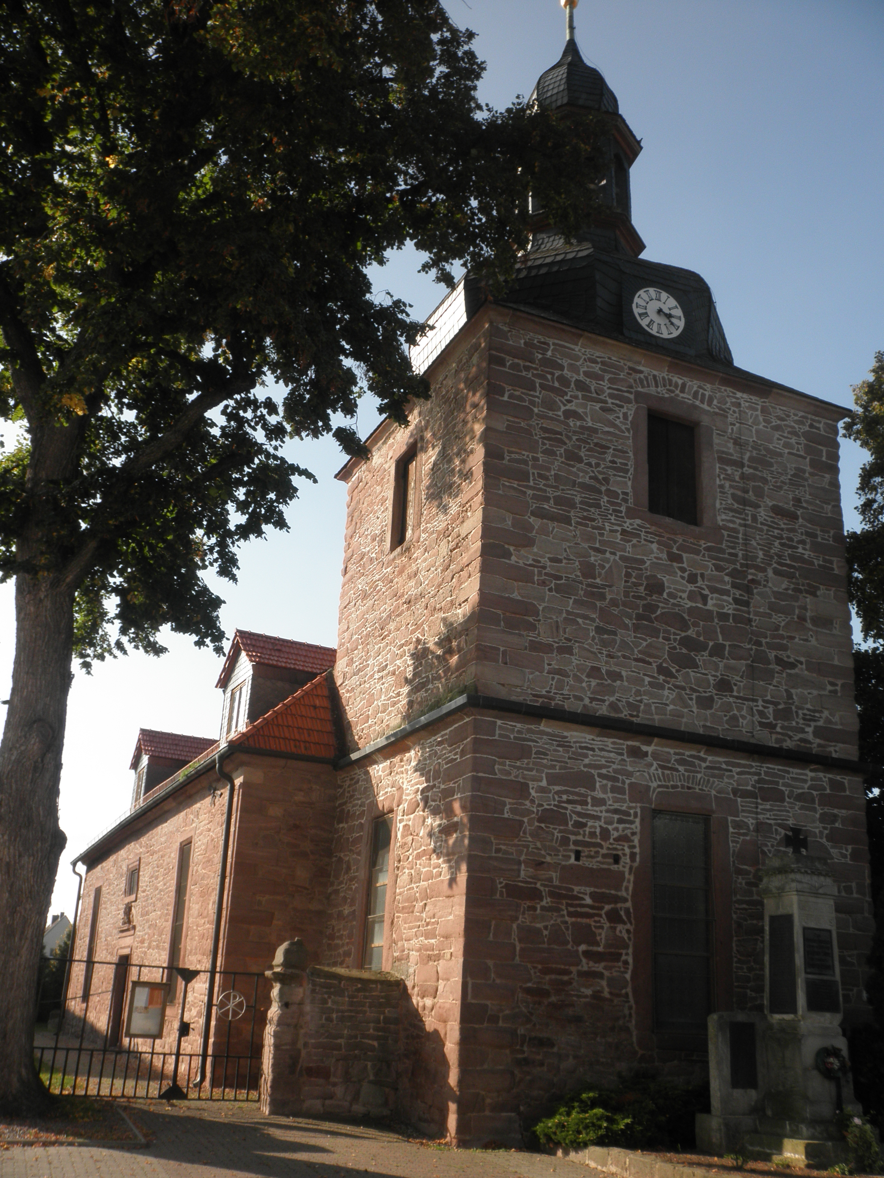 Church in Ichstedt in Thuringia